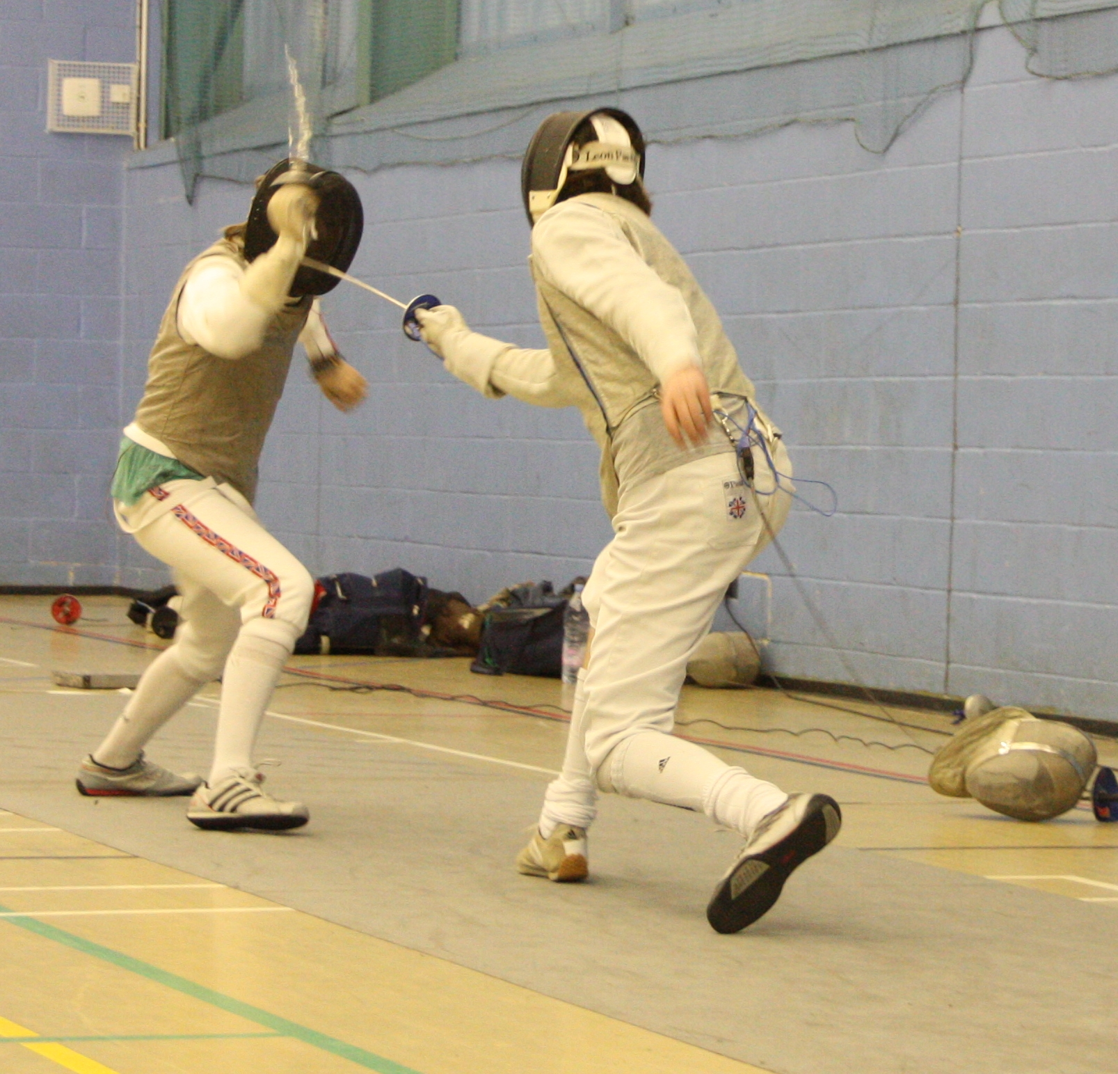 Foil fencing at the University of Kent